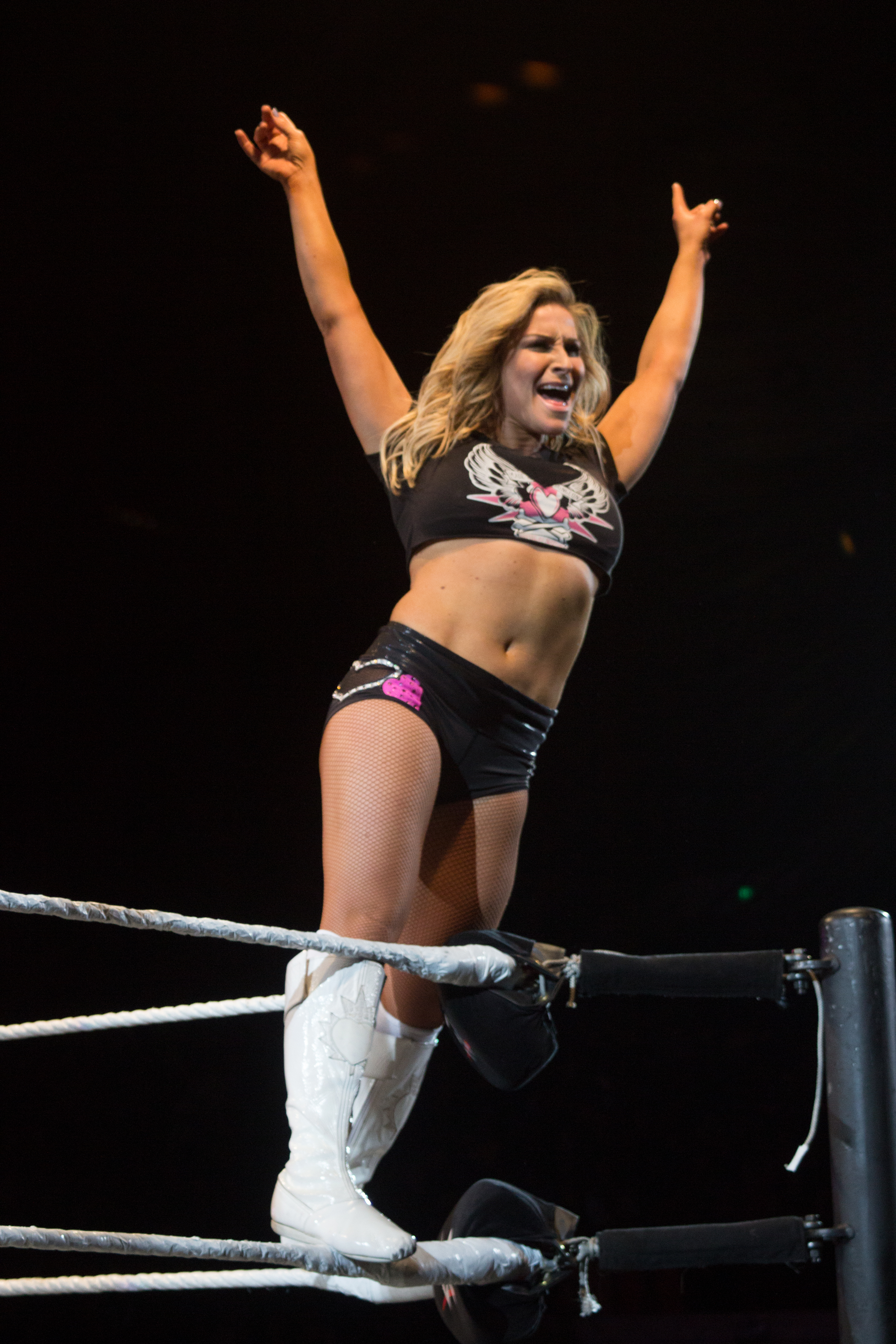 WWE House Show - Garrett Coliseum - 1/10/15